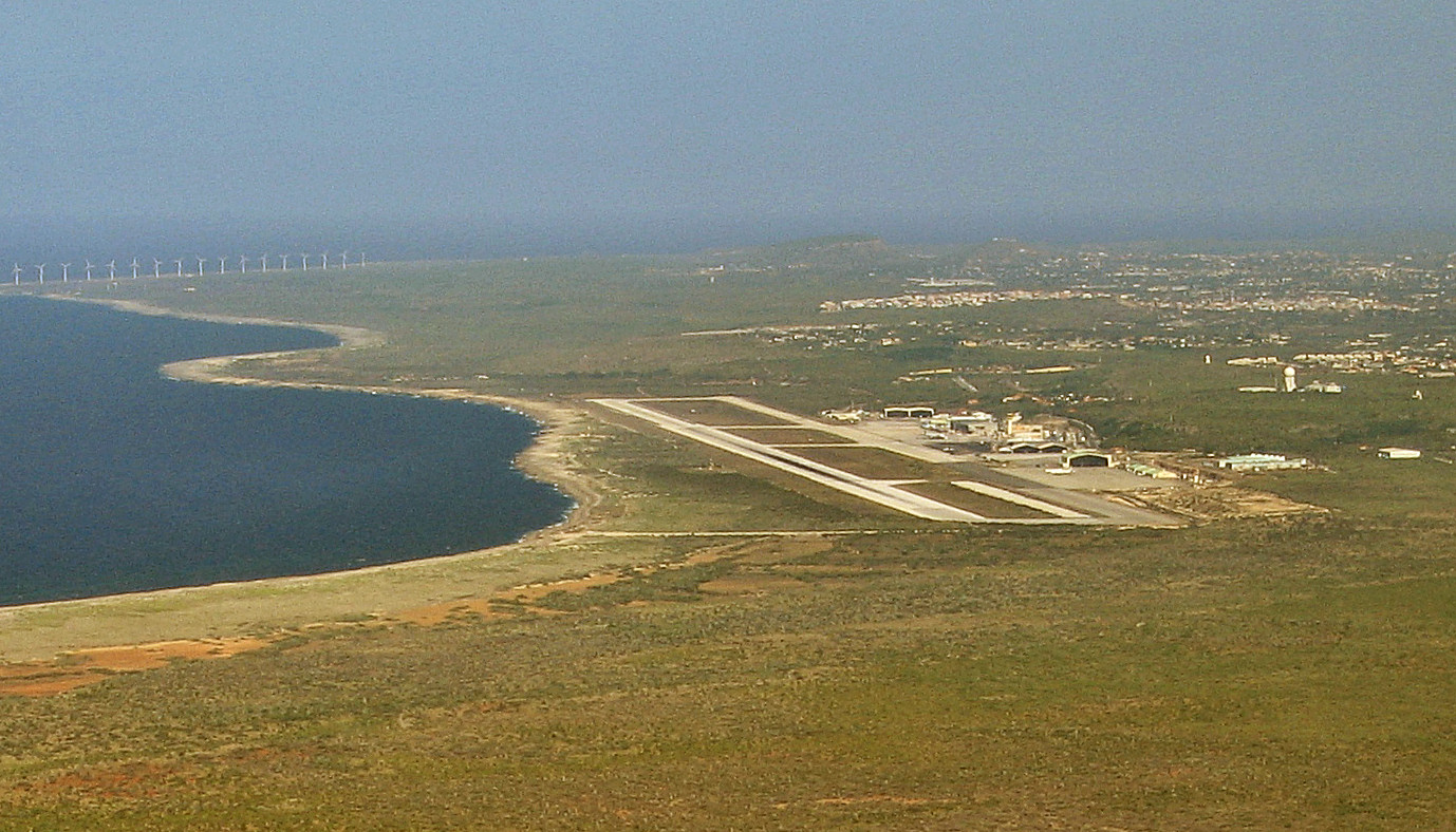 Hato International Airport, as seen from the west